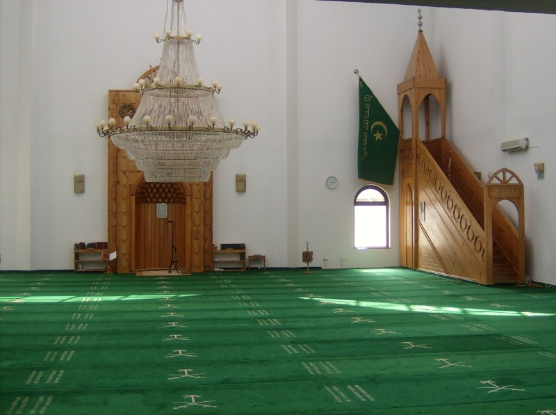 Hamzibeys mosque in Sanski Most, Bosnia and Hercegovina, Europe